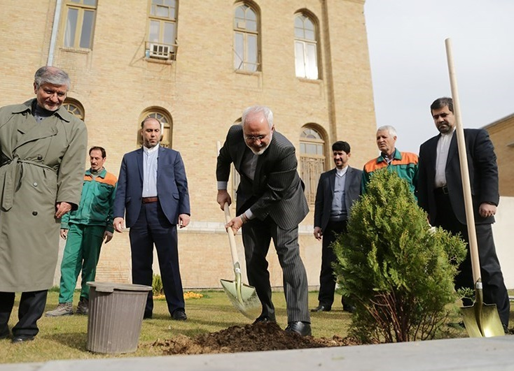 Iranian FM Mohammad Javad Zarif in Arbor Day